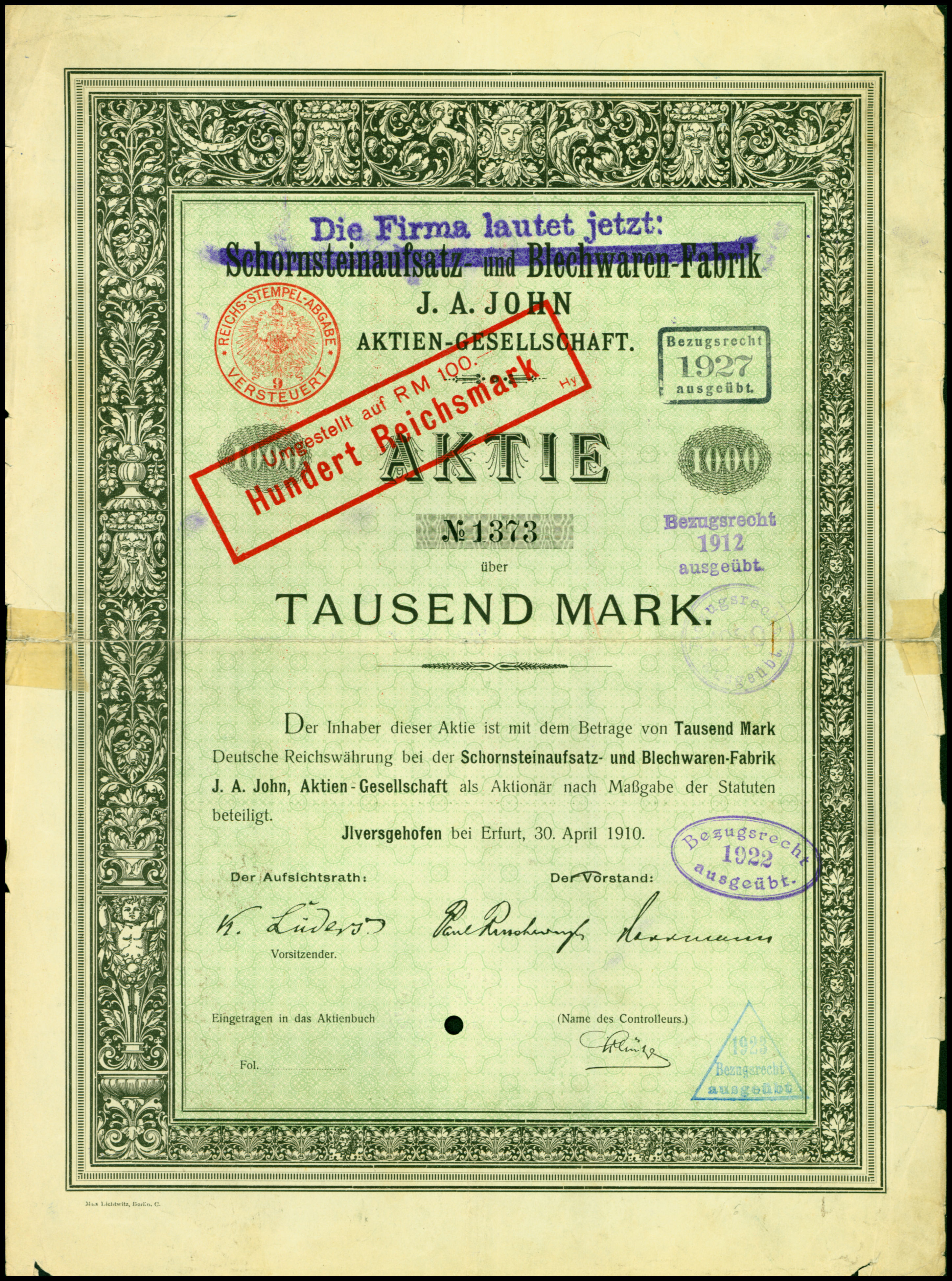 Share of the Schornsteinaufsatz- und Blechwaren-Fabrik J. A. John AG, issued 30. April 1910